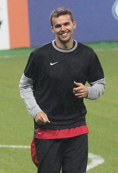 Ondřej Šourek